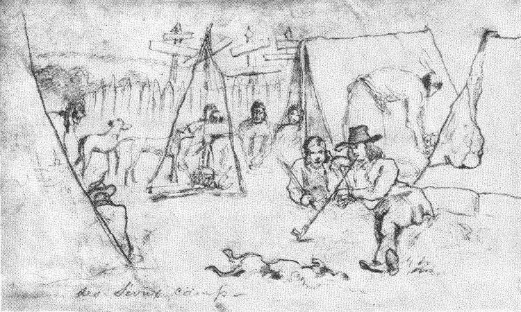 Camp life at Traverse des Sioux, Minnesota Territory